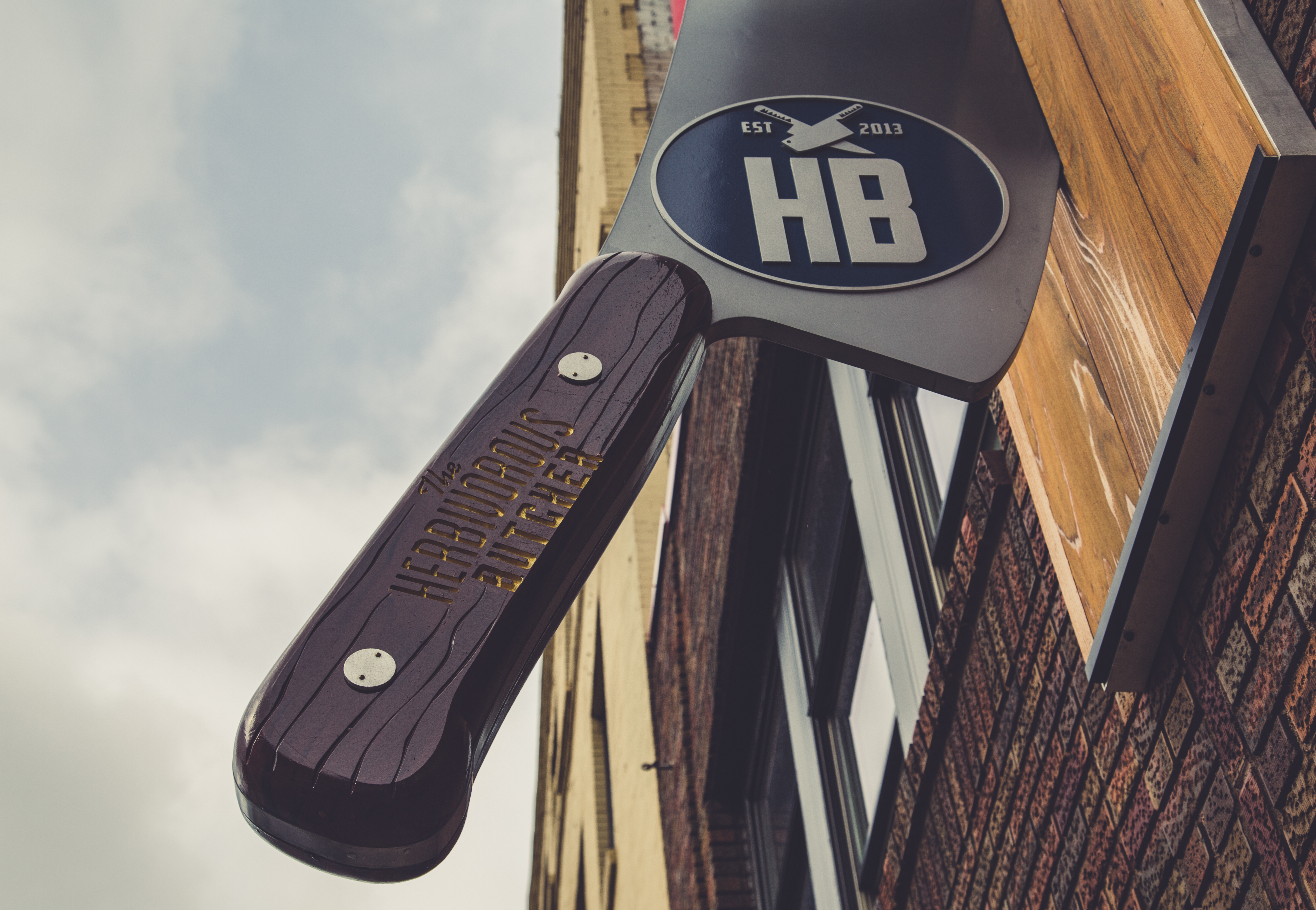 A vegan butcher shop in Northeast Minneapolis, Minnesota.